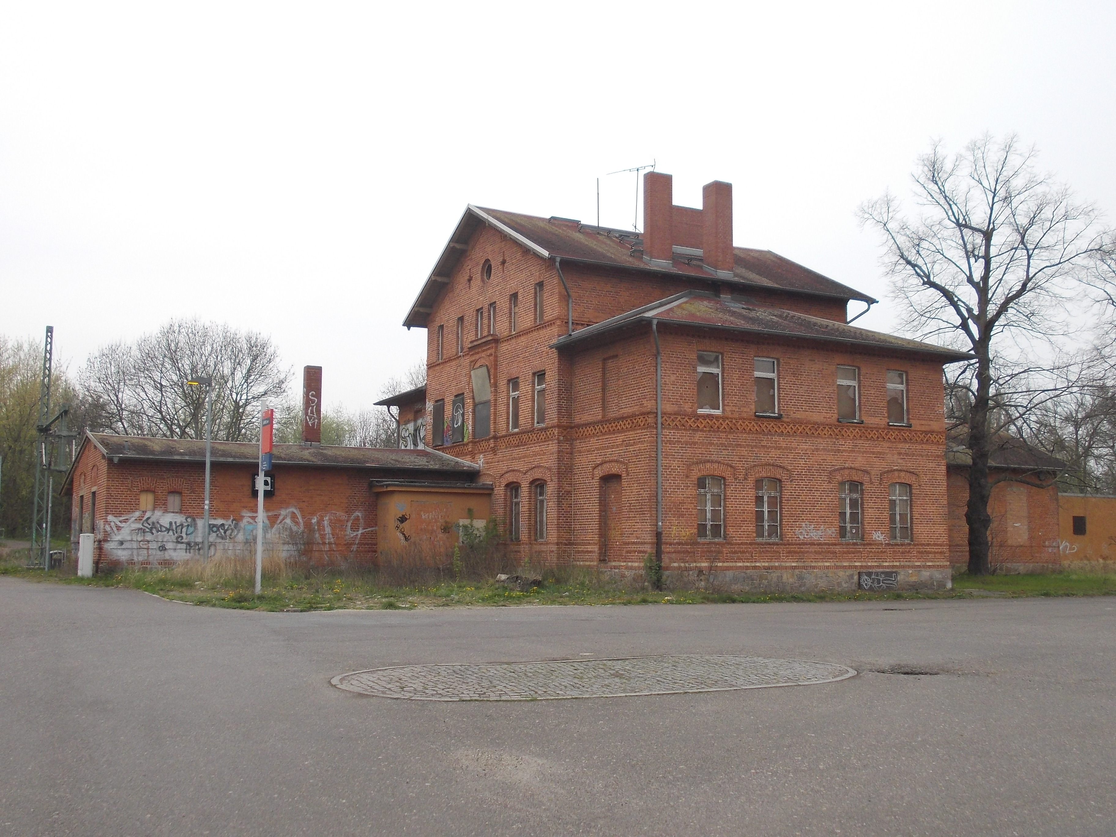 Jessnitz (Anhalt) train station (Raguhn-Jessnitz, Anhalt-Bitterfeld district, Saxony-Anhalt)